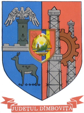 Communist coat of arms of Dîmbovița County, Socialist Republic of Romania.